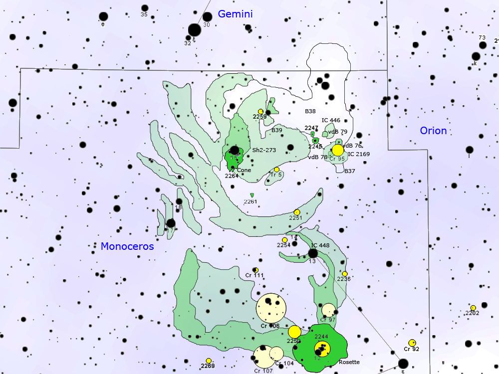 Map of Monoceros OB1 molecular cloud